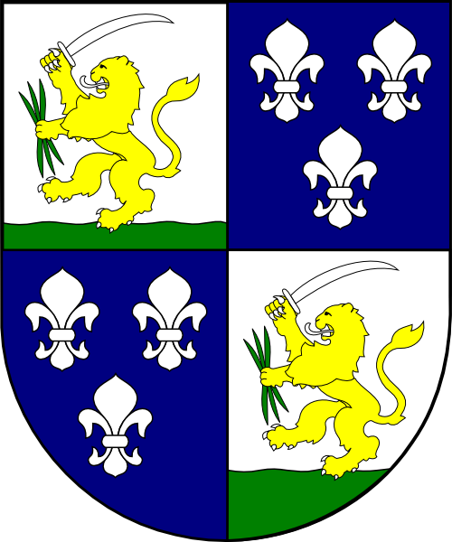 Coat of arms (shield only) of Keresztelő János László Pyker (Johannes der Täufer Ladislaus Pyrker, Ján Krstiteľ Ladislav Pyrker), bishop of Spiš, Slovakia (1818 - 1820), Patriarch of Venice (1820 - 1827), archbishop of Eger, Hungary (1827 - 1847).